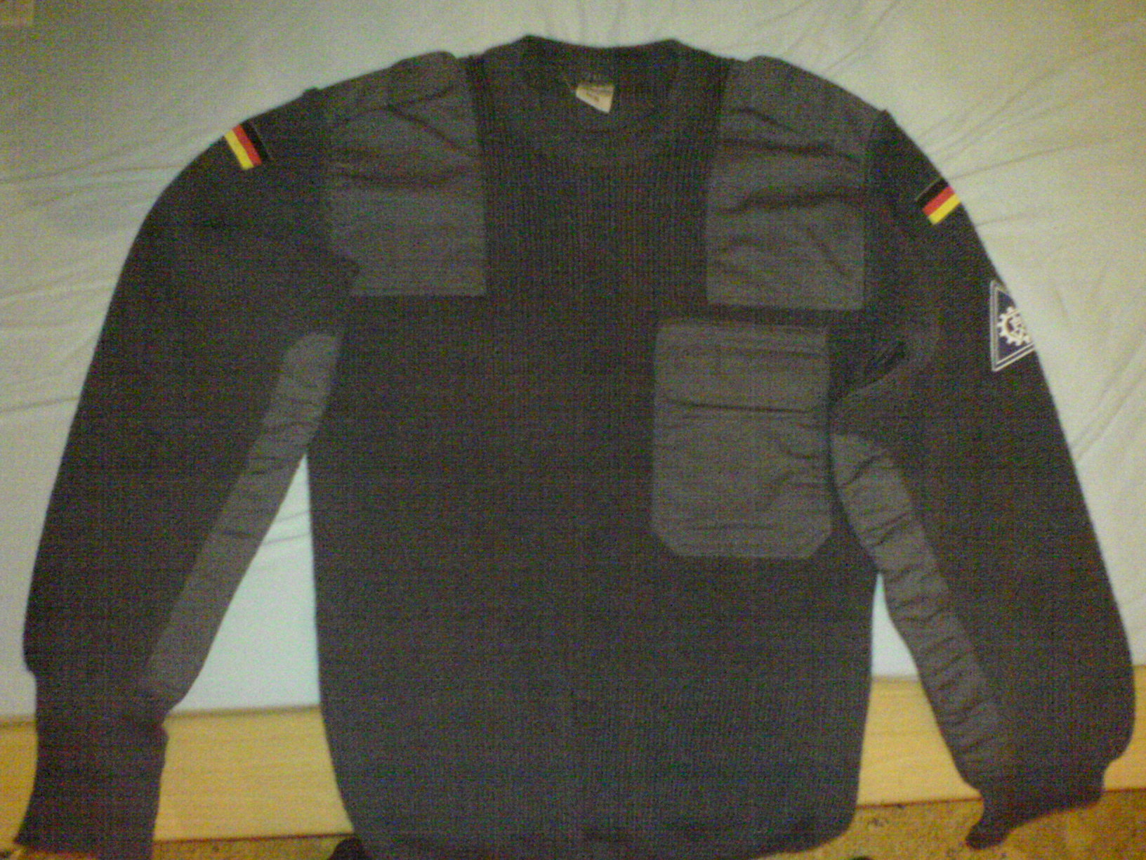 This is a pullover of the German Civil Protection Service "THW"